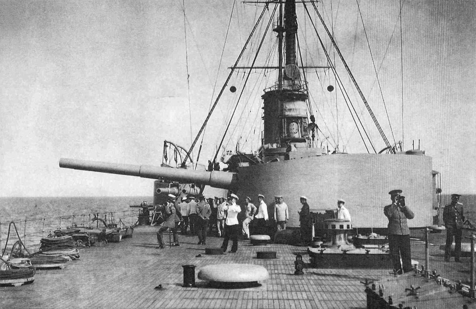 254 mm/50 naval gun on the Imperial Russian cruiser Riurik, 19 July 1911.